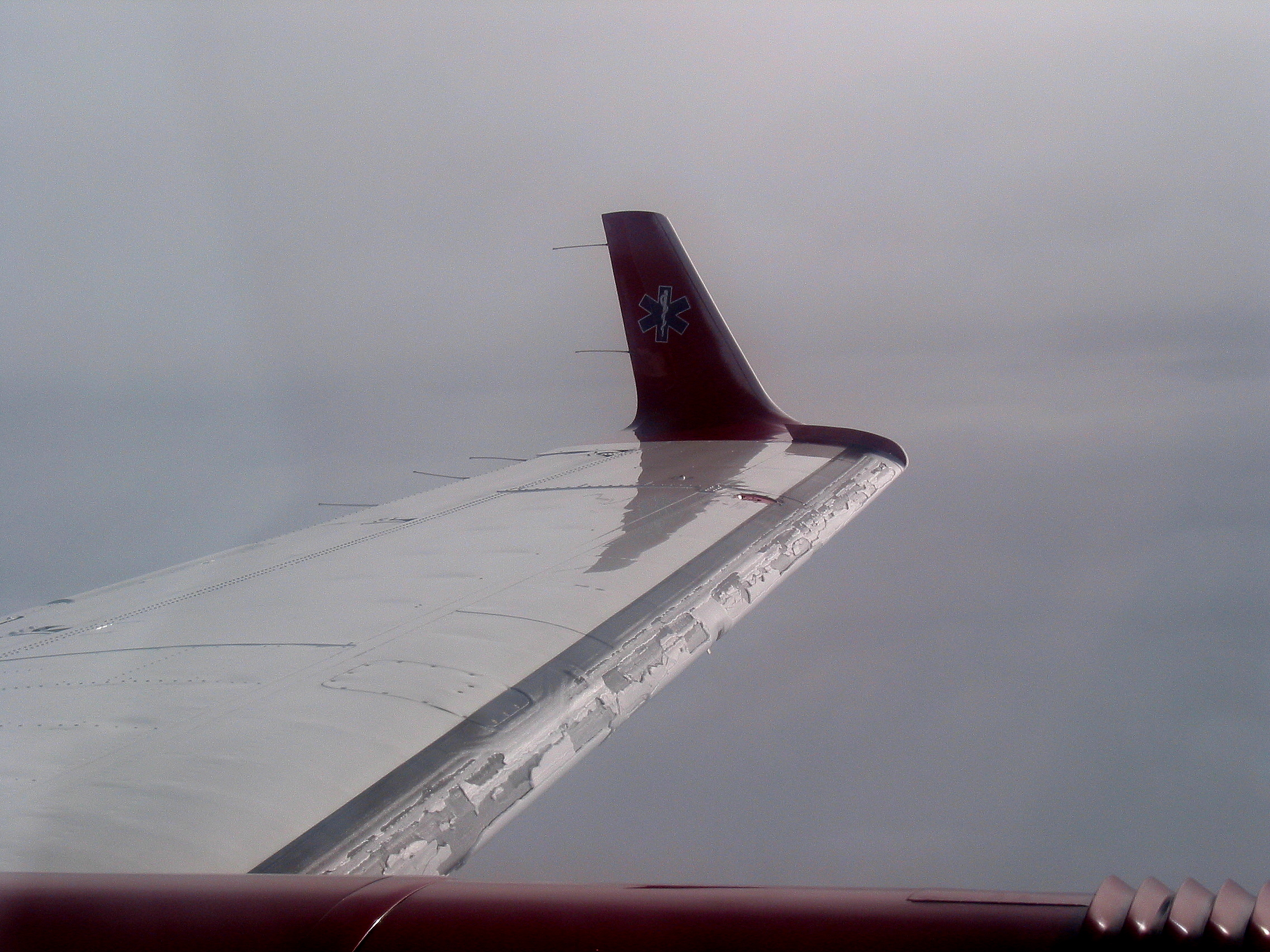 Ice accumulating on the de-icing boots on the leading-edge of the wings of a Beechcraft King Air